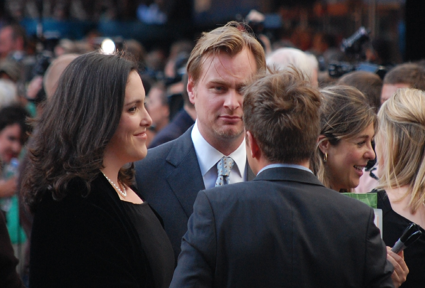 Nolan and Thomas at the The Dark Knight Premiere